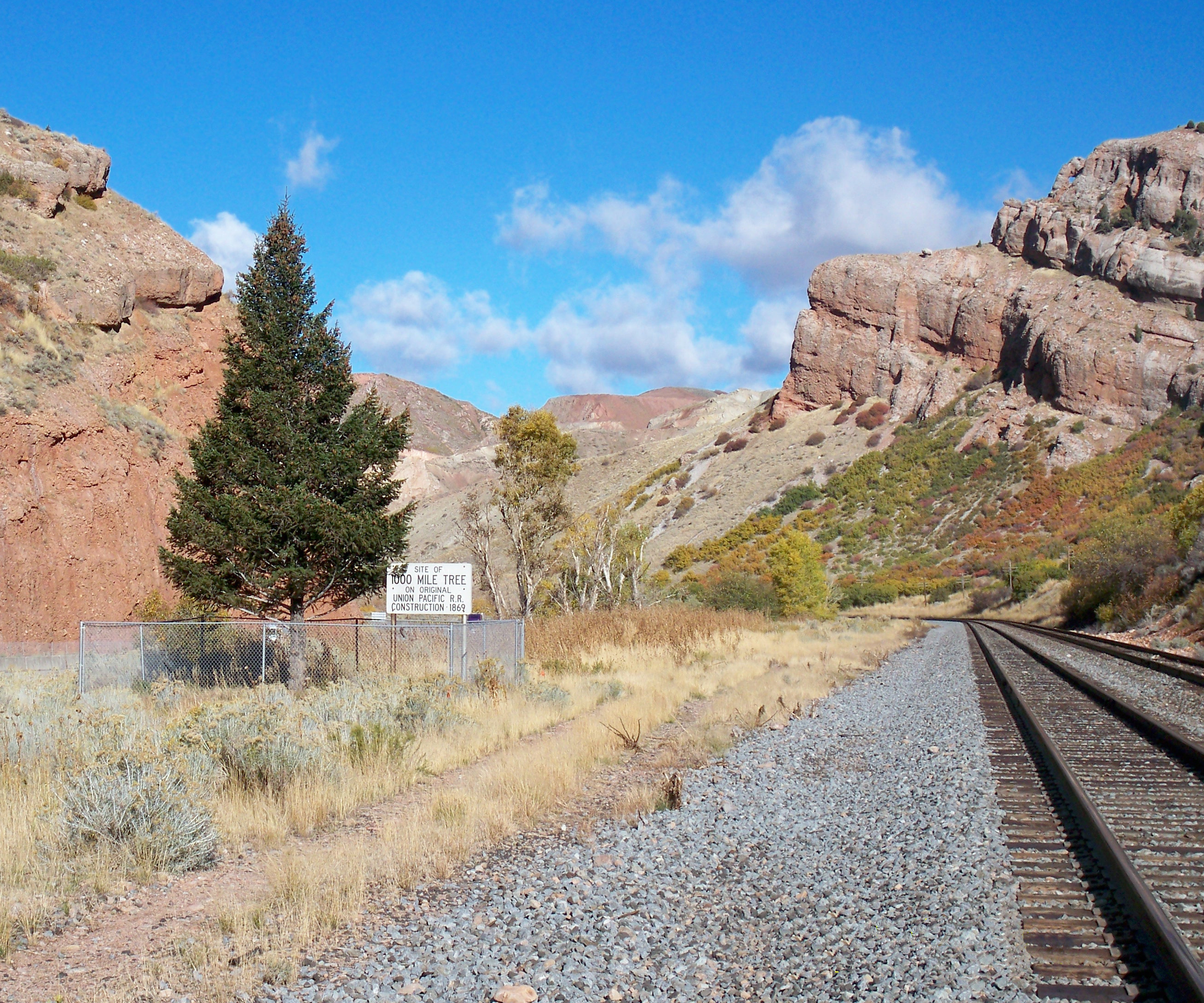 Picture taken during a tie renewal project looking from the Union Pacific Railroad tracks west toward the coast 2011.